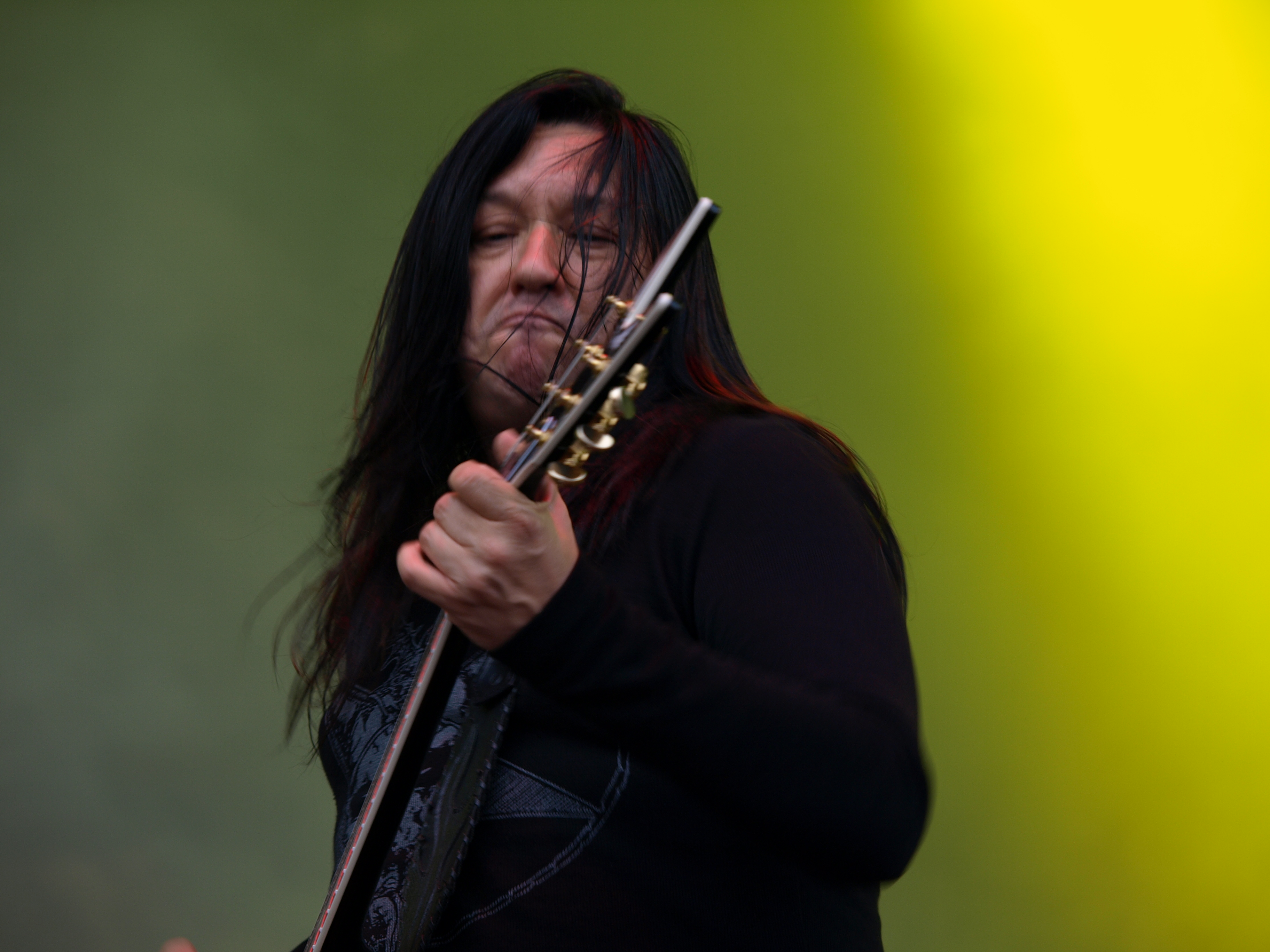 US-American thrash metal band Testament live at Tuska Open Air 2013